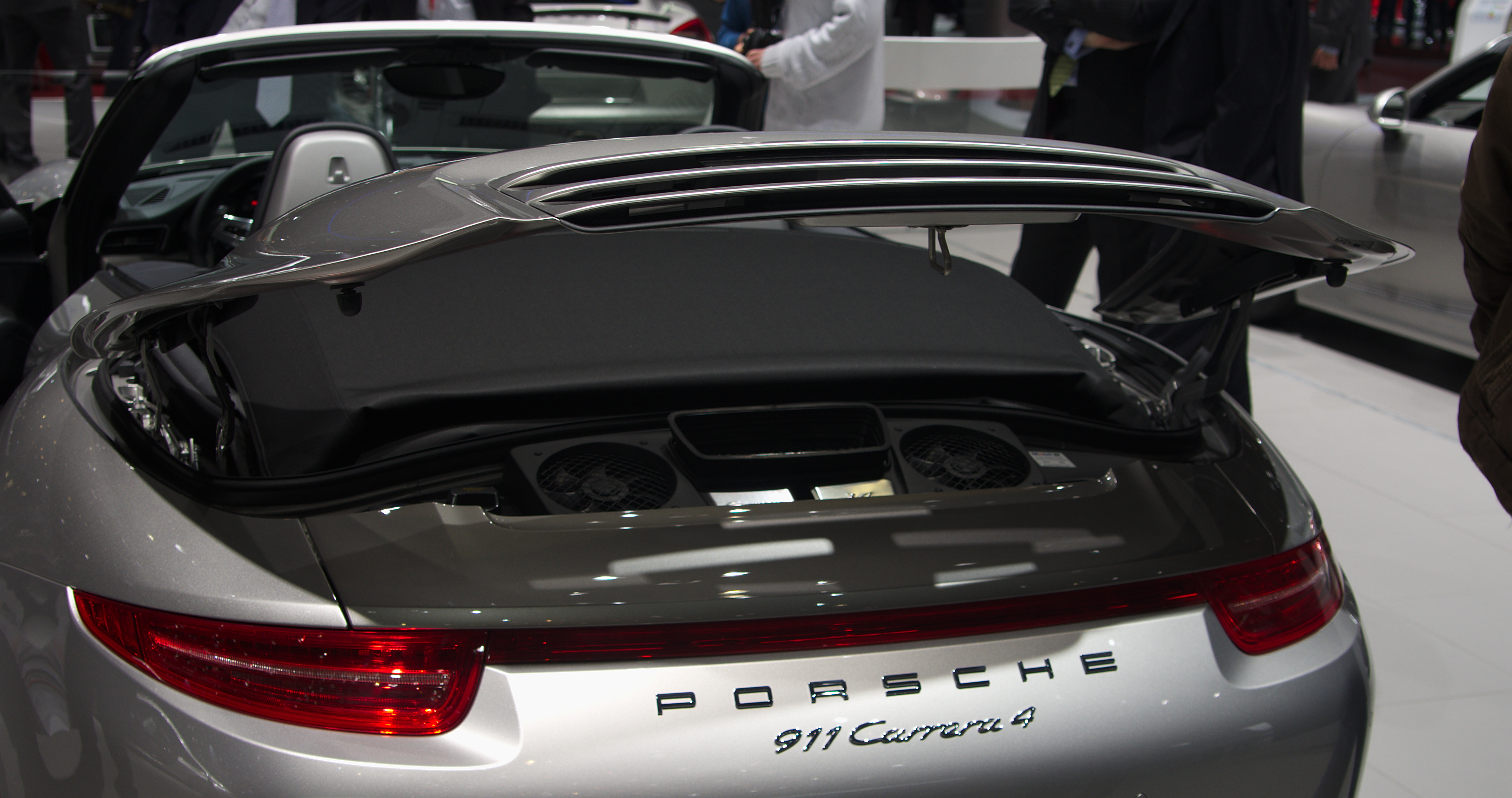 Geneva MotorShow 2013 - Porsche 911 Carrera 4 opened rear